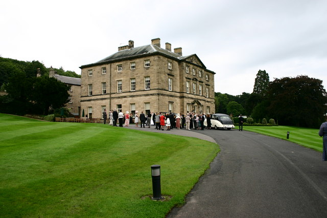 Close House Hotel